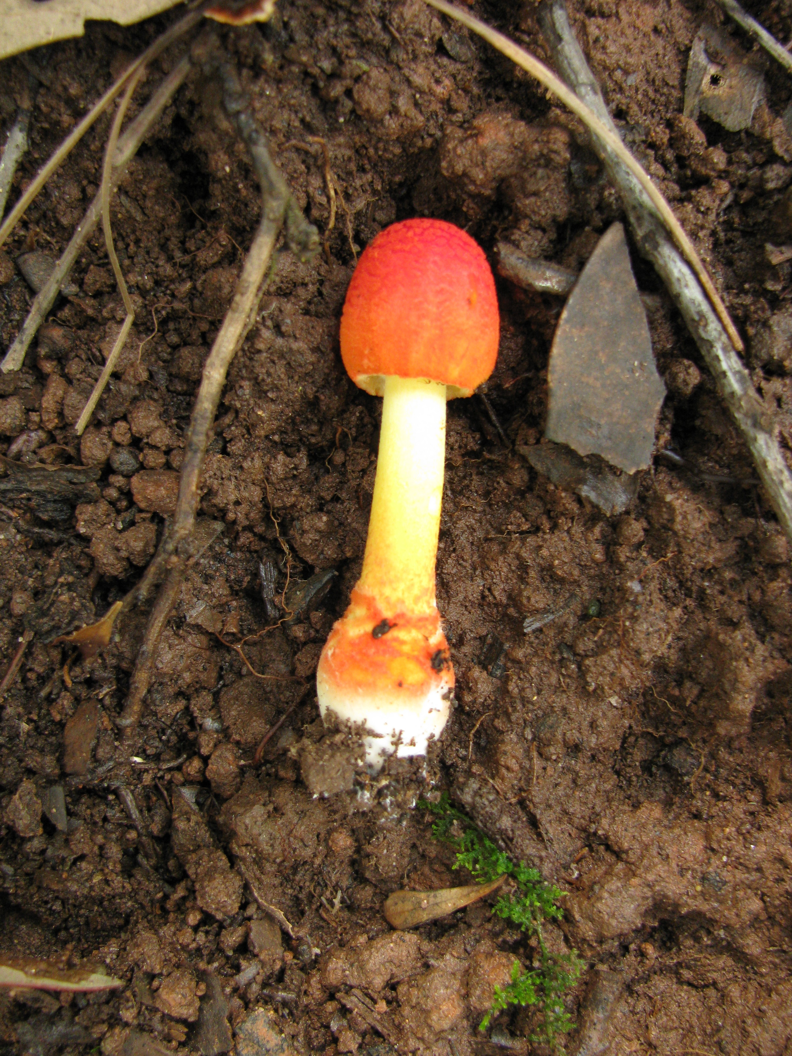 A fruit body of the fungus Amanita rubrovolvata S. Imai. Specimen collected and photographed in Lu Feng, Yunnan Province, China.